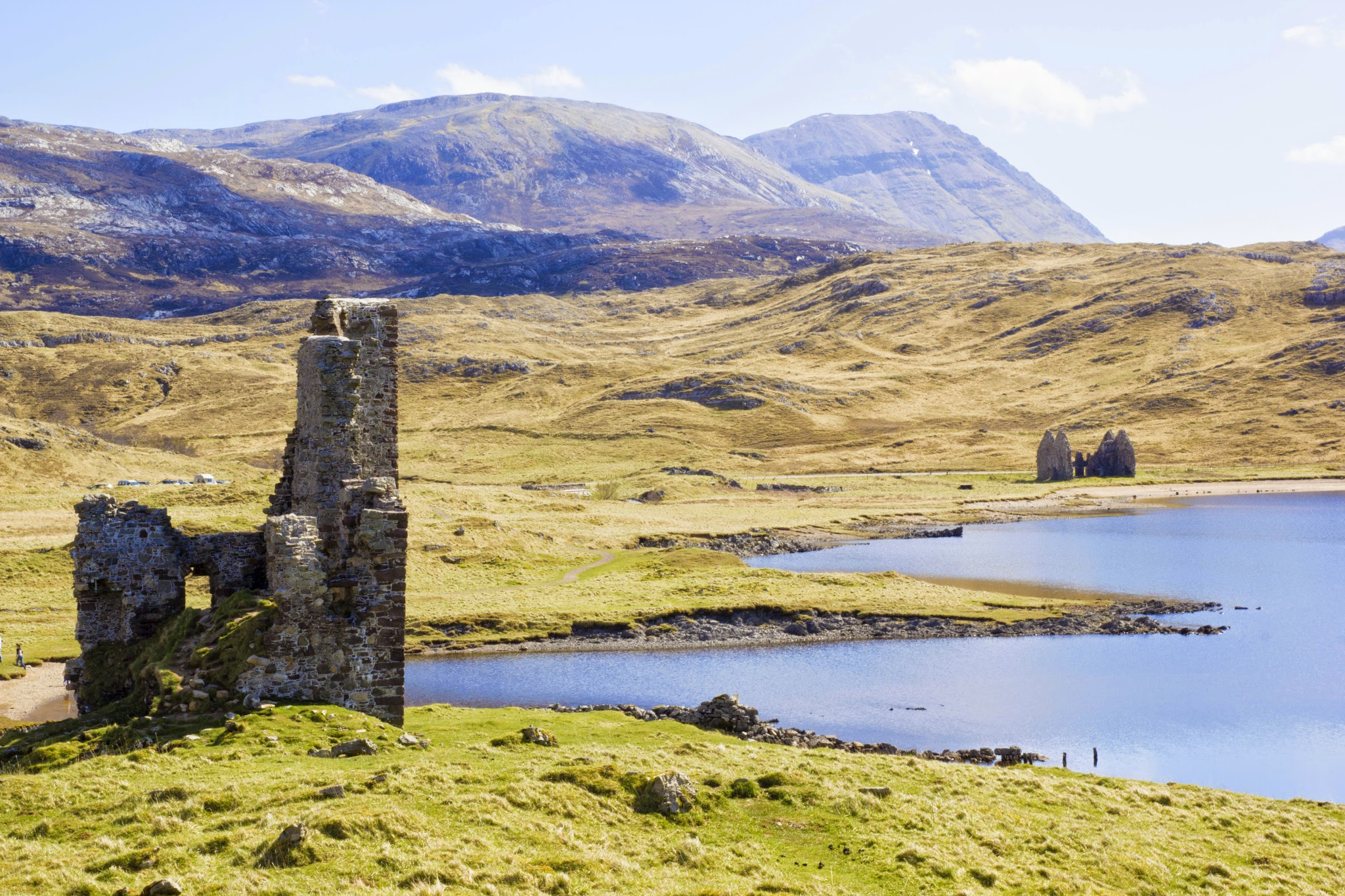 ARDVRECK CASTLE Wikidata has entry Q17815322 with data related to this building.